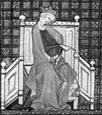 Blanche of Castile